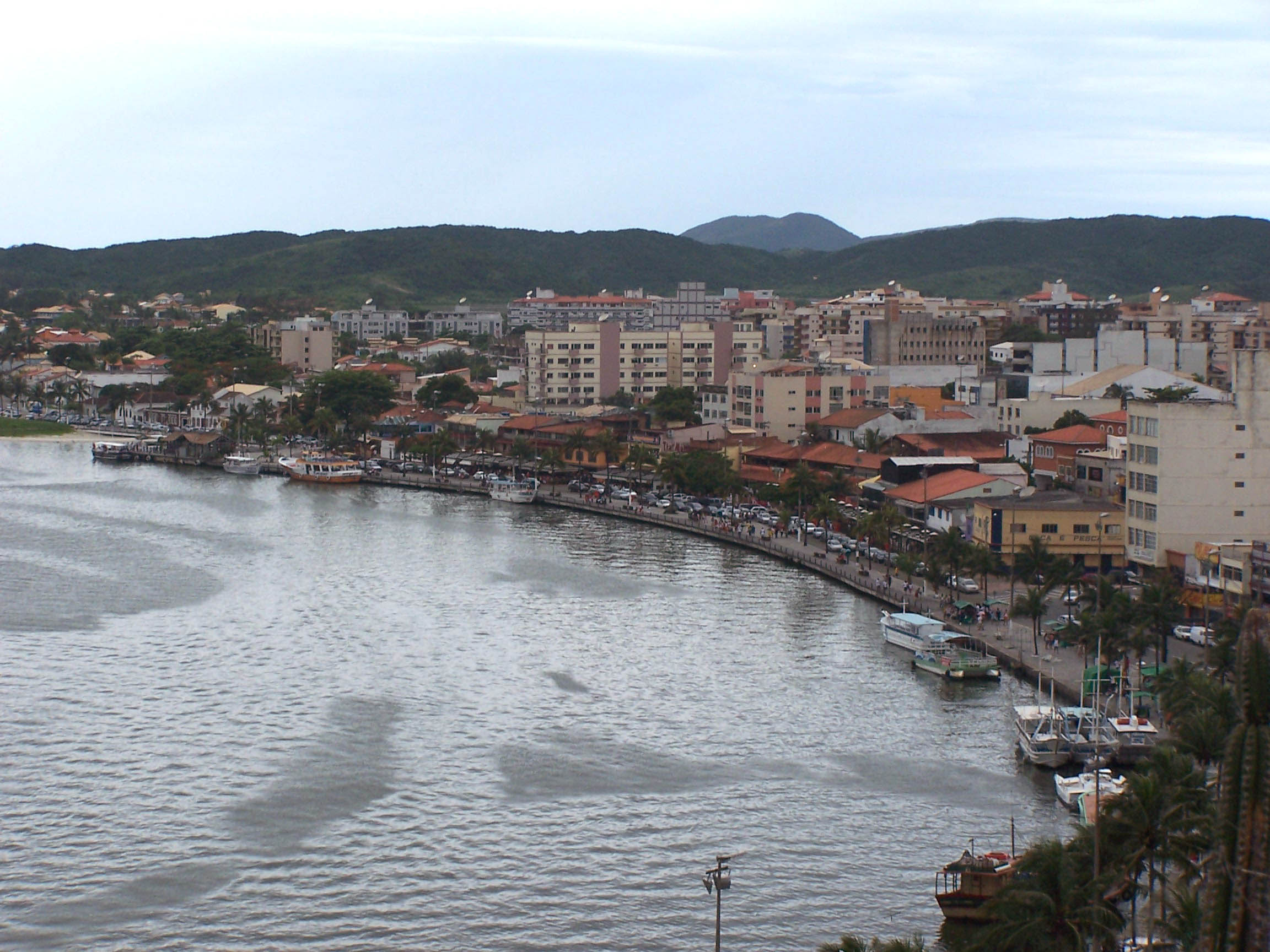 View of Cabo Frio, Brazil